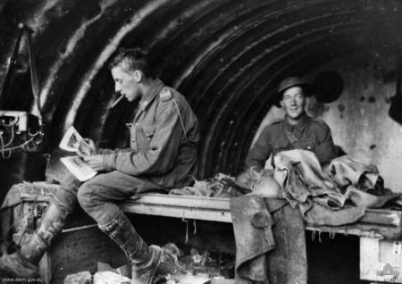 Gunners Thomas Baker and Harrington of the 16th Battery, Australian Field Artillery relaxing in a dugout. Baker later transferred to the Australian Flying Corps and became a flying ace.